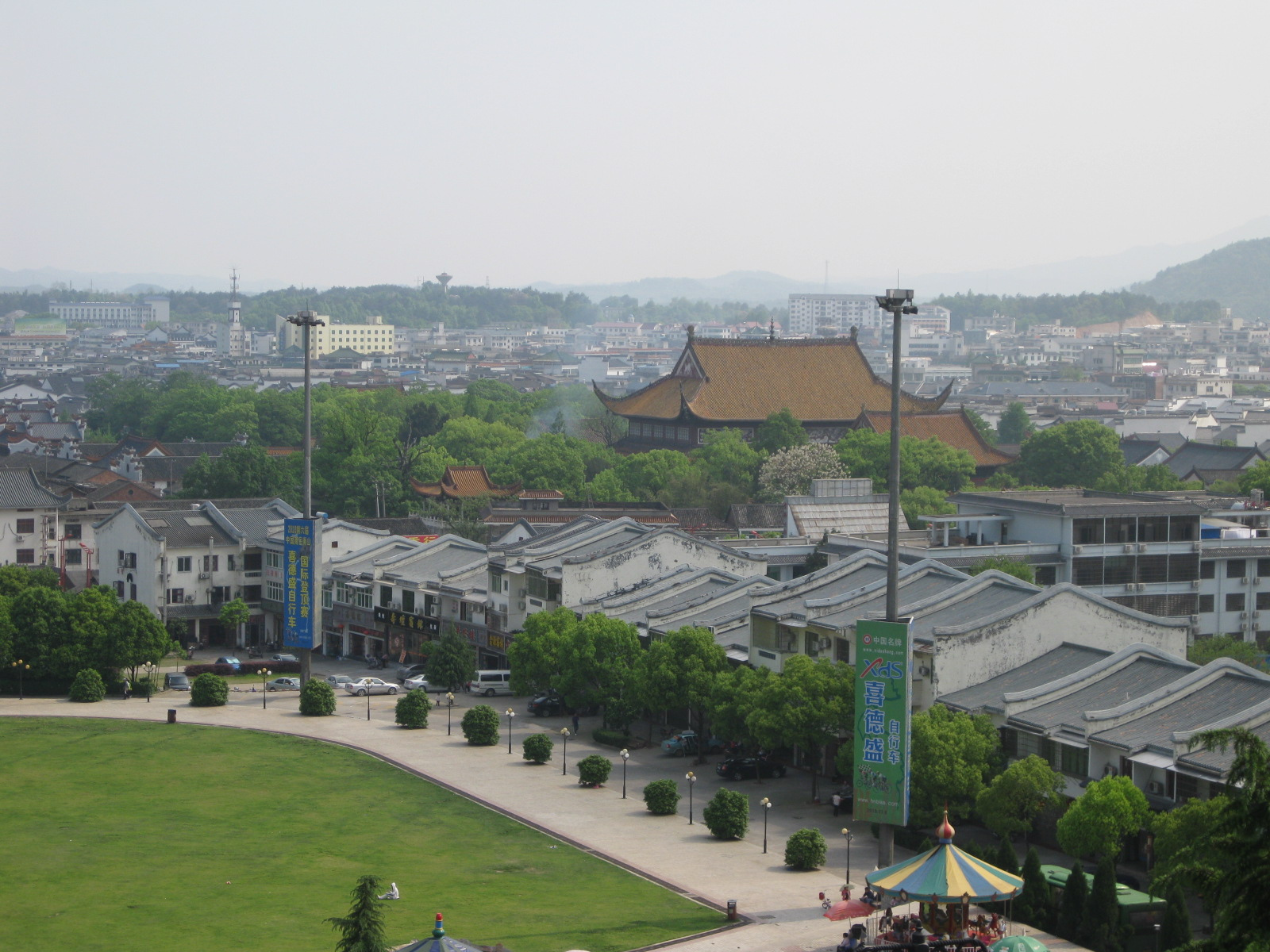 Nanyue Damiao overview